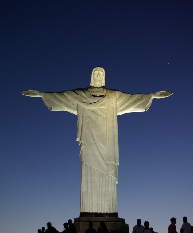 Statue of Christ the Redeemer, Rio de Janeiro, Brazil.